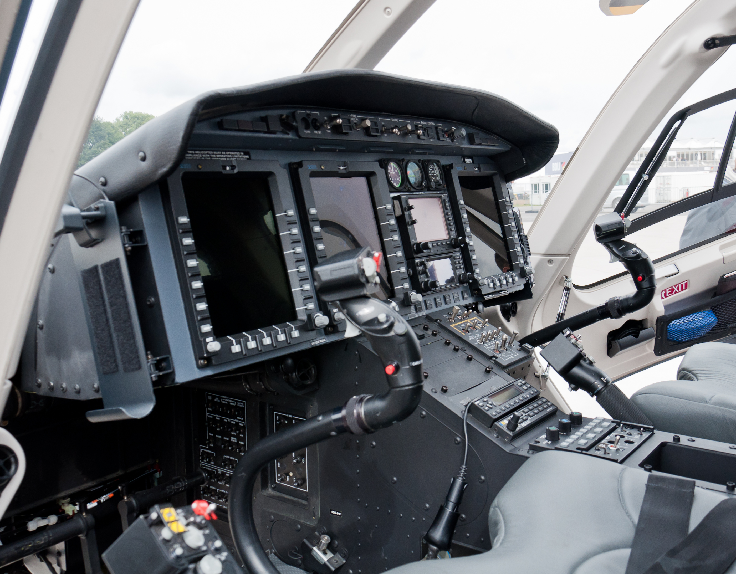 Bell 429 GlobalRanger C-FTNB (cn 57002) cockpit at ILA Berlin Air Show 2012.